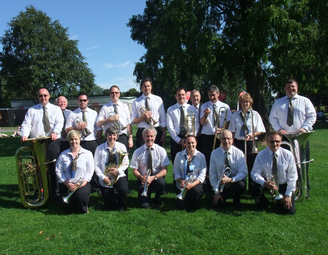 Some of the players of Chalgrove Band, taken in Sanders Park, Bromsgrove on 24th July 2011